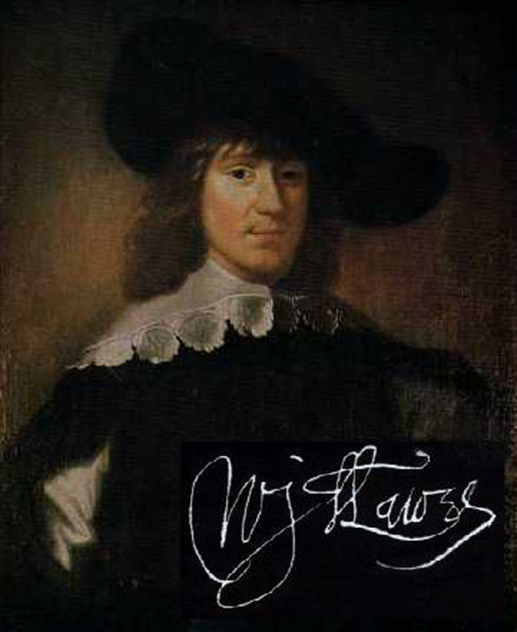 William Lawes (1602-1645)